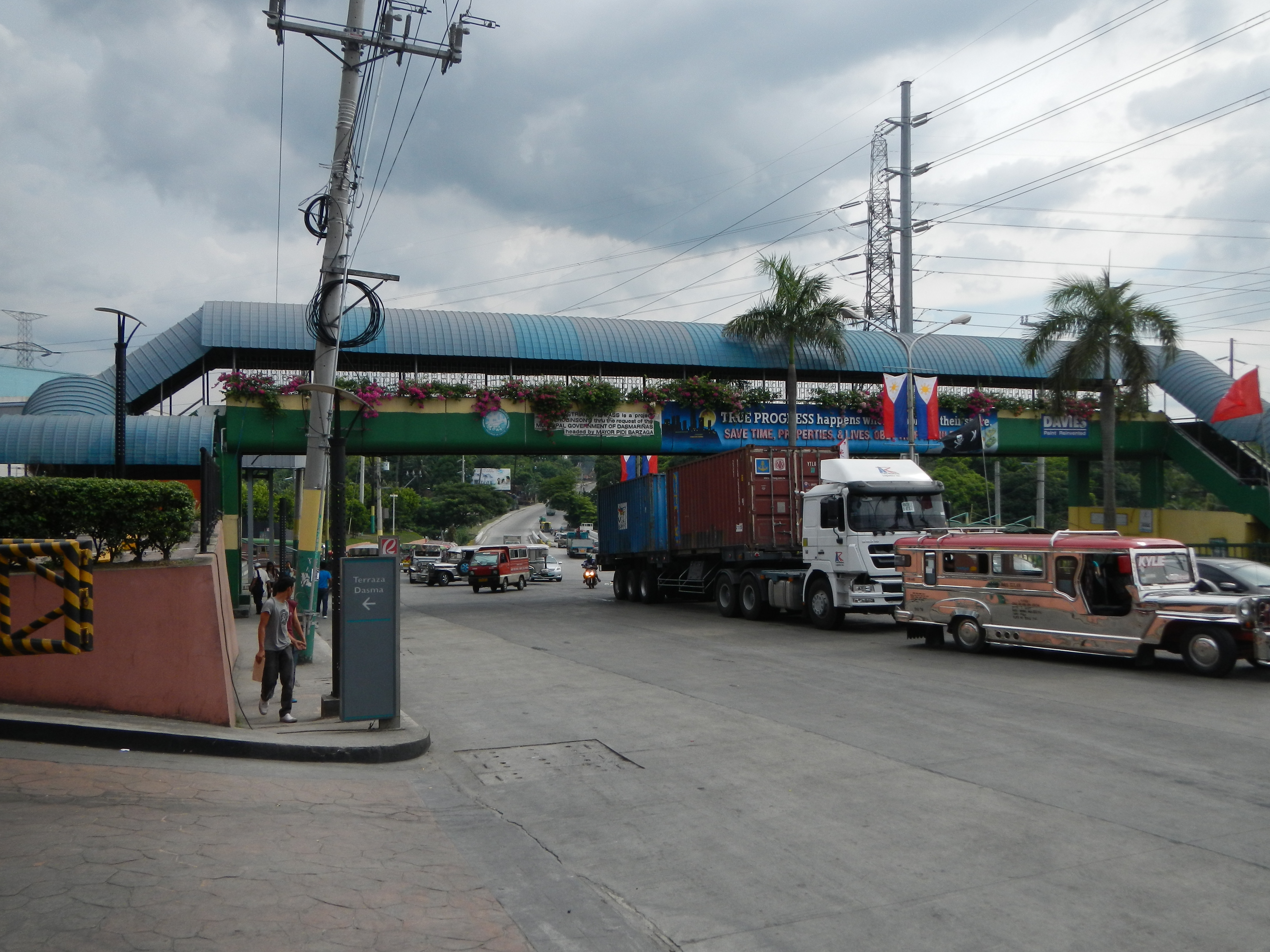 Carmona Rotonda - Maduya, Carmona, Cavite [1] the Intersection and the Welcome monument - Going with the flow of the rotonda, heading straight continues to Governor's Drive, the first road to the right (beside Petron) leads you to Carmona [2] Town Proper, then the second road to the right leads you to Carmona Public Market. Governor's Drive[3] The Governor's Drive is a 2 to 6 lane, 49.3-kilometre (30.6 mi) network of roads and bridges traversing through the central cities and town in the province of Cavite, Philippines. It is the widest of the three major highways located in the province, the others are Aguinaldo Highway and A. Soriano Highway. Aguinaldo Highway Intersection ---------[N.B. June 7, 1st Friday, 2013 Photography of - From Bulacan at 9:05 a.m., I took photo of Dasmariñas [4] City at 12:49 pm, the Aguinaldo Highway, then, at 3:35 pm, I took photo of Carmona, Cavite [5] - I finished San Lazaro Carmona Race Track, Carmona Welcome Arch and Binan Laguna Welcome Arch and Araneta Coliseum Quezon City at 8:31 p.m. and started uploading via slow internet next day June 8, 2013 at 6:59 pm - I hereby certify that these rarest, raw, original and unedited photos are exclusive for Commons and Wikipedia never uploaded in any Internet or any site, and for the public domain without any condition.]